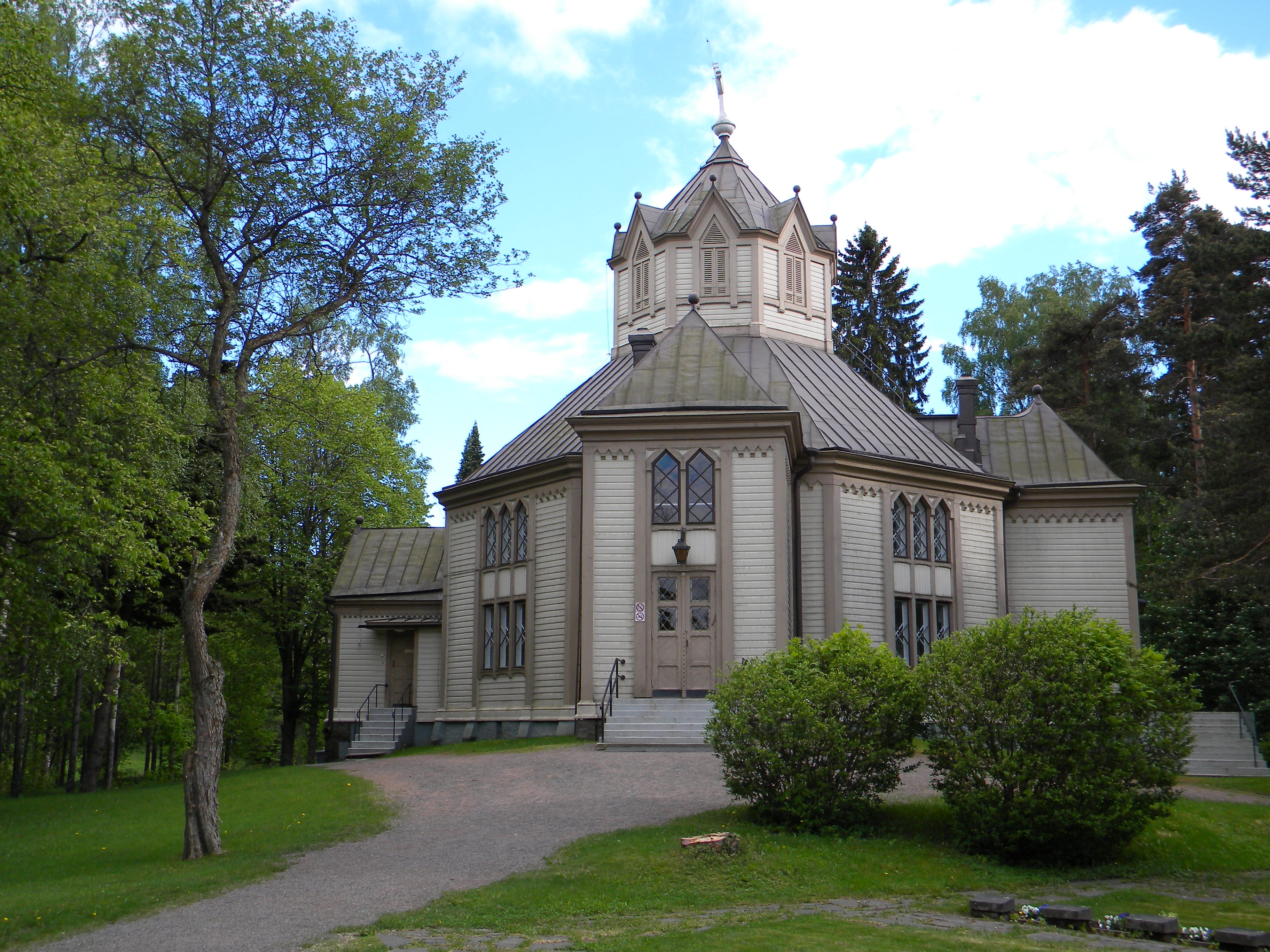 The church of Strömfors Ironworks was built in the 1770s. The Ironworks is located at Ruotsinpyhtää, Finland.